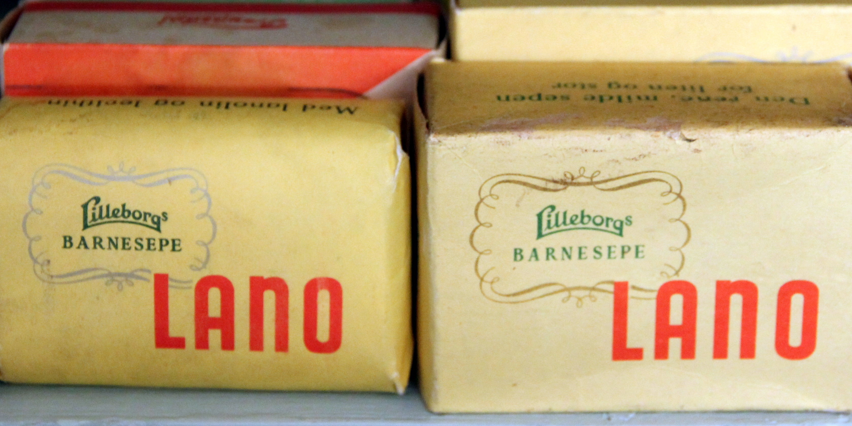 Lilleborg, norwegian hygiene and cleaning article company. Here Lano soap. Now owned by Orkla.